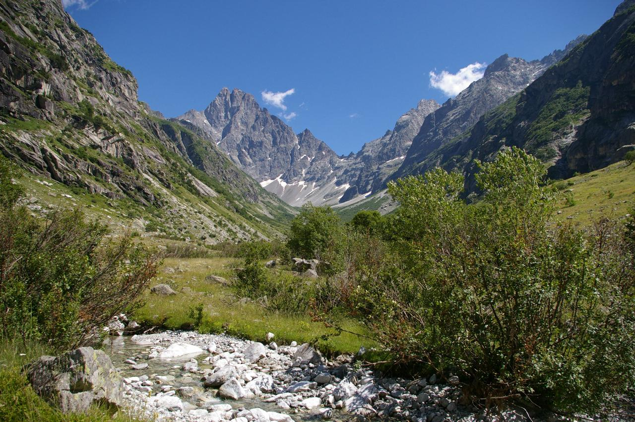 Olan mountain (3564 meter) in Ecrins National Park, Isere, France. Used on Nationaal park Les Écrins.